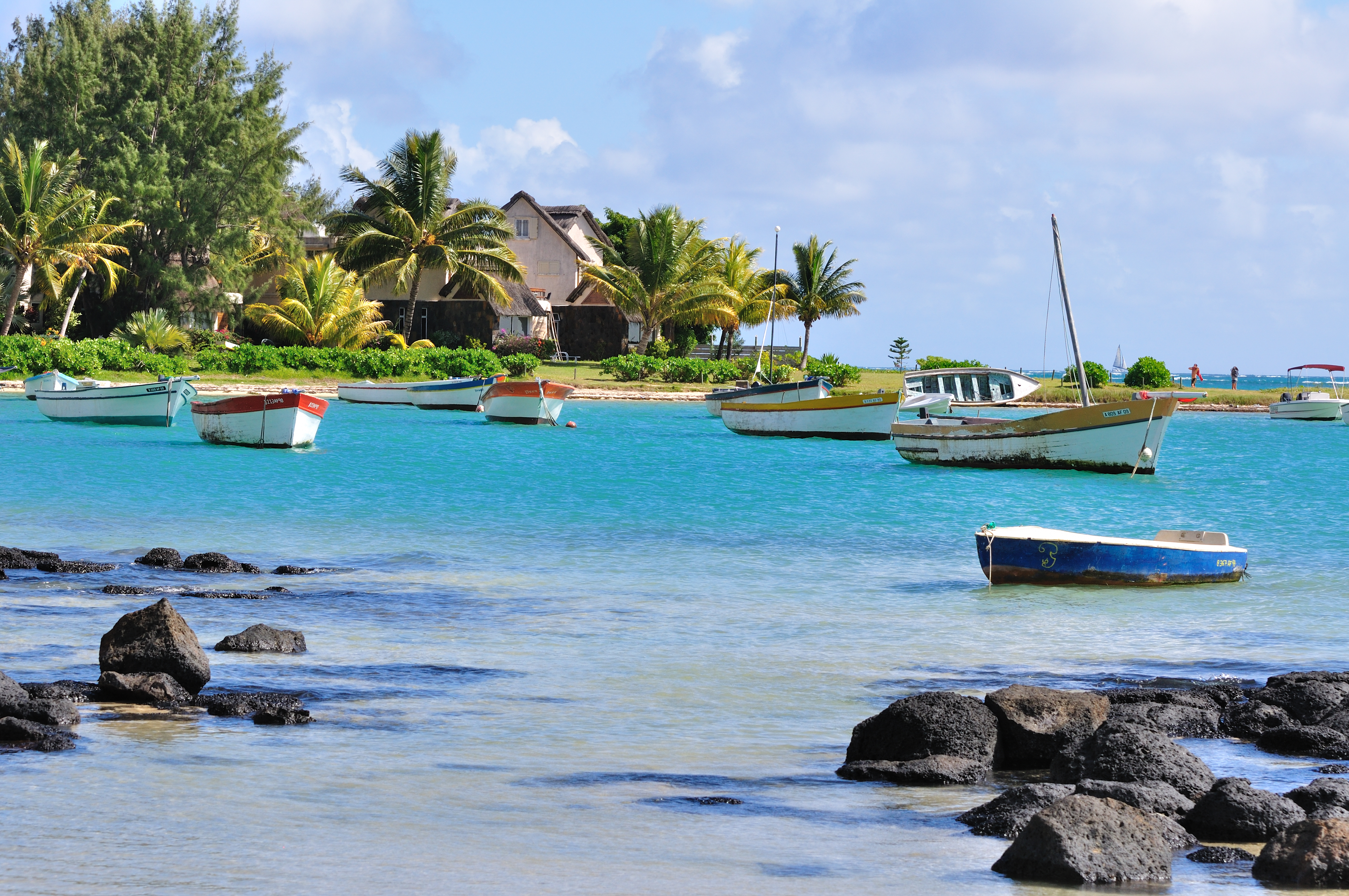 Mauritius, public beach at Cap Malheureux